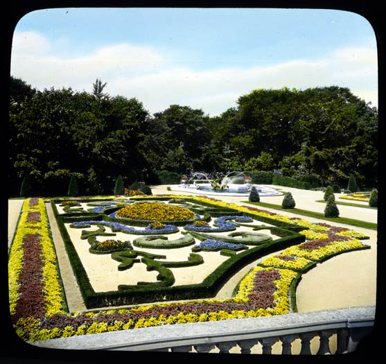 Creator: (former owners) Widener, George D Rice, Alexander Hamilton Colorist: Van Altena, Edward Landscape Architect: Jacques Gréber Type: Projected media Date: 1930 Topic: Summer Parterres Flower beds Walkways Box Ageratums Annuals (Plants) Fountains Local number: RI021003 Physical description: 1 slide: glass lantern, col.; 3 x 5 in Notes: The slides were commissioned by Mrs. Hugh D. Auchincloss Sr. Phelps, Harriet Jackson. Newport in Flower. Newport, RI: Preservation Society of Newport County, 1979, p. 50-56. Griswold, Mac and Weller, Eleanor. Golden Age of American Gardens. N. Y., N. Y.: Harry N. Abrams, Inc. in association with the Garden Club of America, 1991, p. 31 Place: Rhode Island Newport Persistent URL: Repository:Archives of American Gardens View more collections from the Smithsonian Institution.